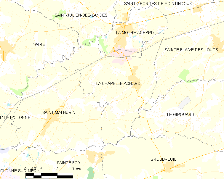 Map of French municipality La Chapelle-Achard